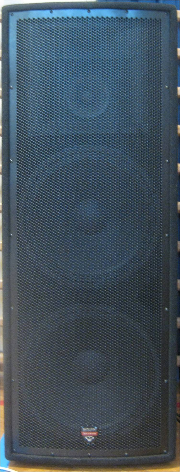 Alphard Magnum 345X